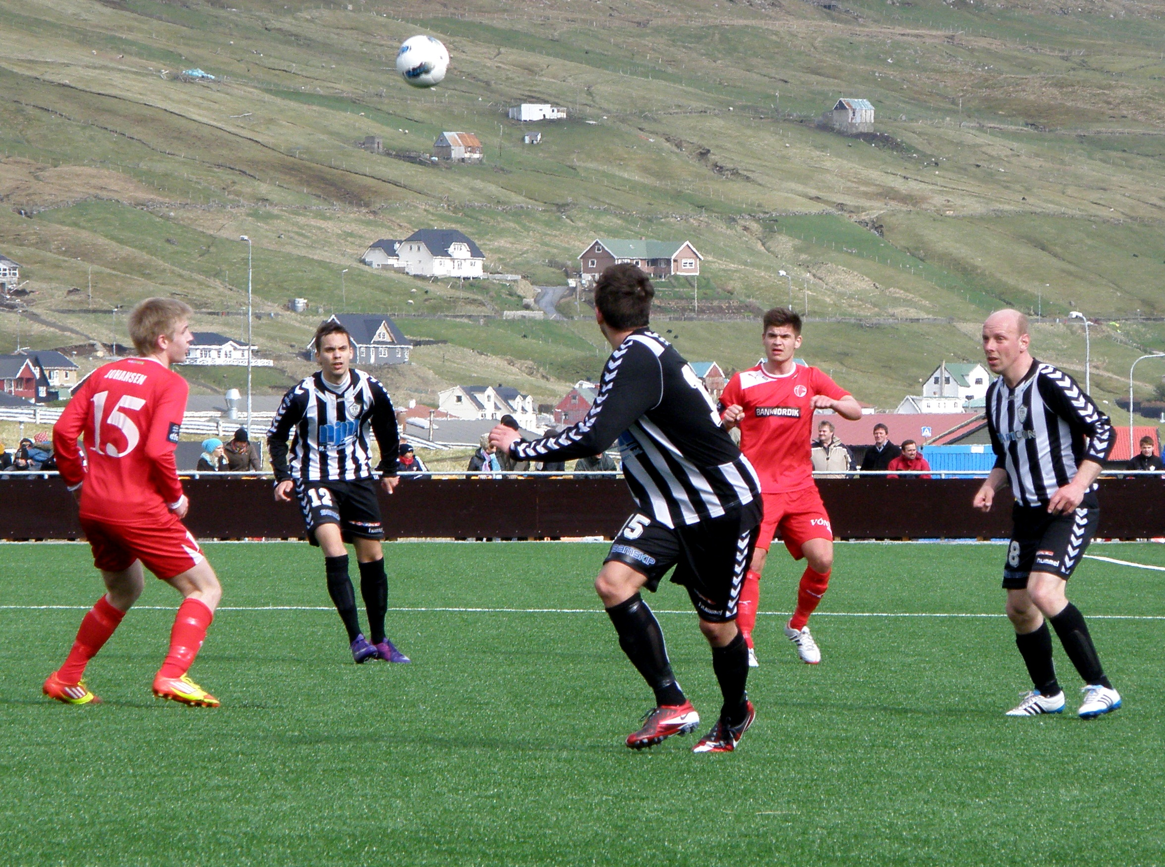 Faroese football (soccer) match in the men's best division, which currently (2012) is called Effodeildin. Føroyskt: Myndin er frá tí fyrsta fótbóltsdystinum í Effodeildini sum varð leiktur á nýggja vøllinum Við Stórá hjá TB hin 29. apríl 2012. Dysturin var millum TB og ÍF. TB vann dystin 1-0, Dmitrije Jancovic gjørdi málið.